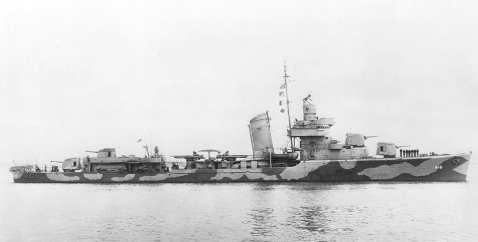 The U.S. Navy destroyer USS Roe (DD-418) underway on 4 June 1942.